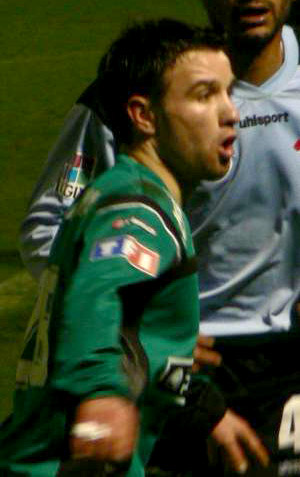 Mathieu Valbuena, football player